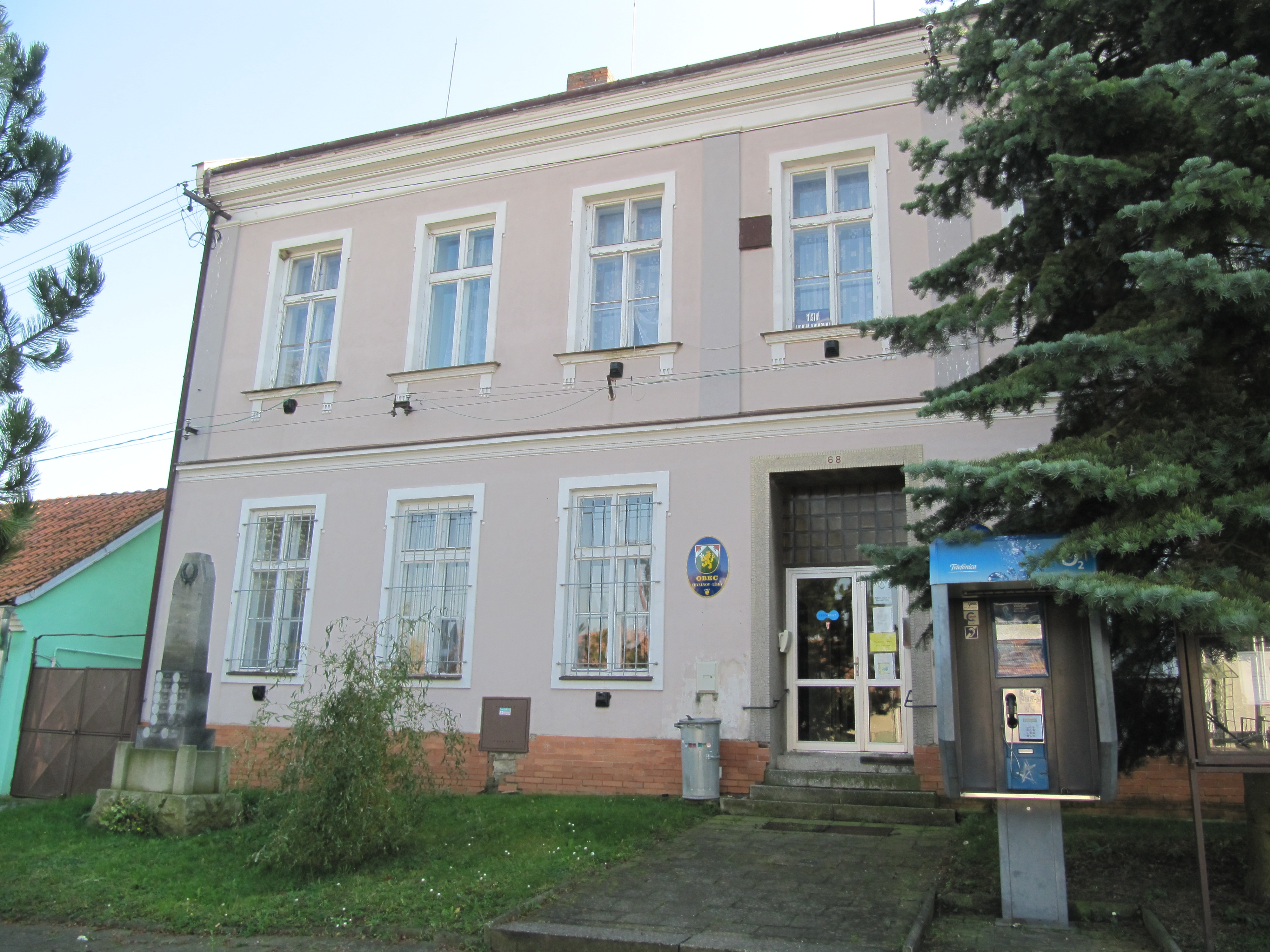 Chvalnov-Lísky in Kroměříž District, Czech Republic, part Chvalnov. Municipal office.